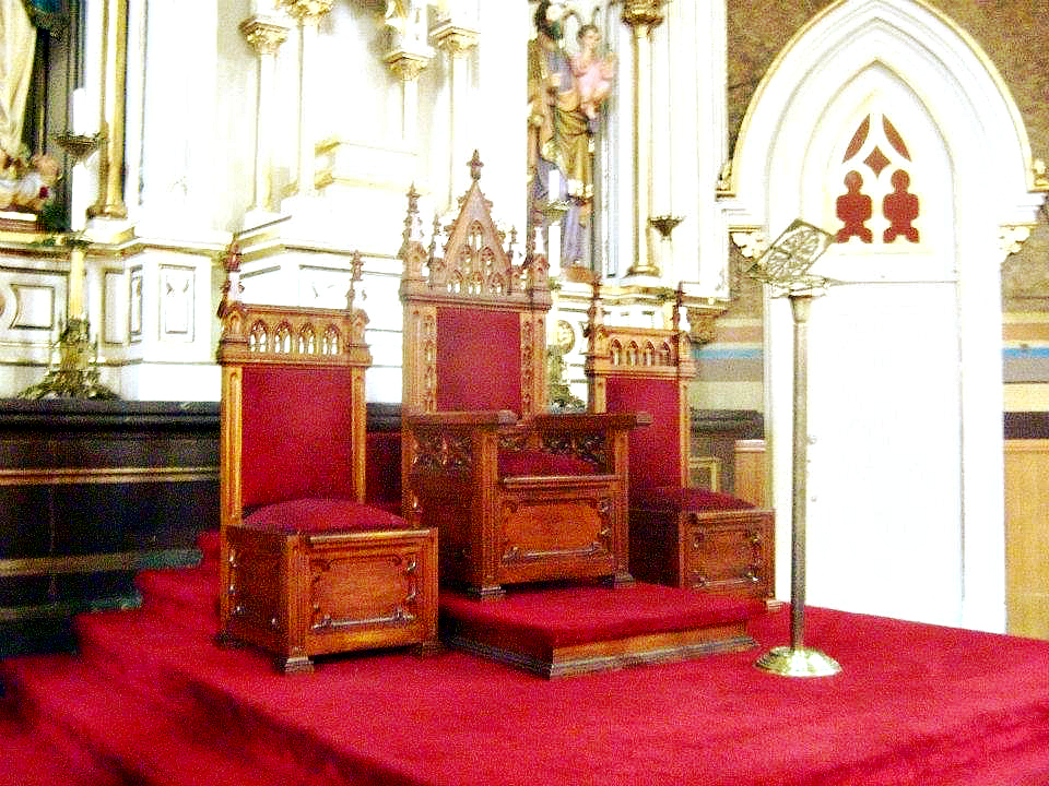 sede parroquial de la basilica de ubaté